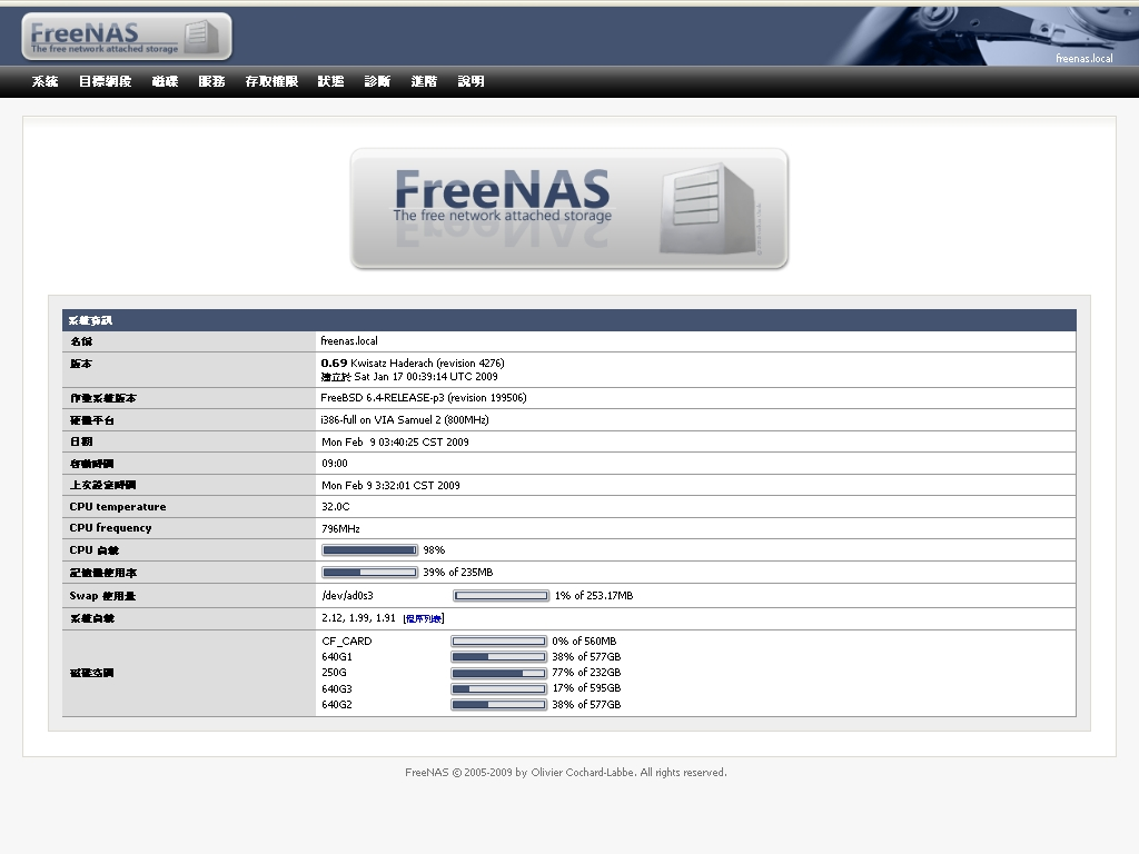 FreeNAS v0.69 Screenshot